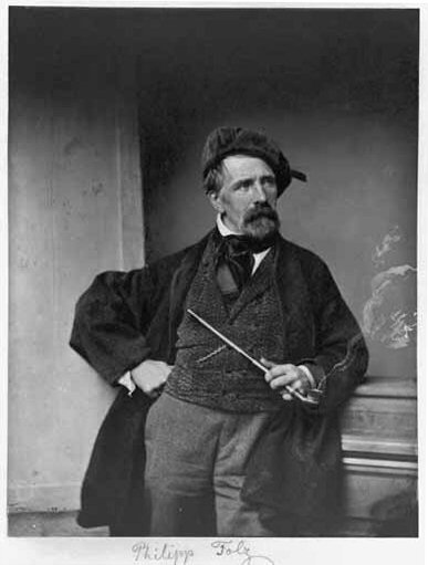 Philipp Foltz photographed by Franz Hanfstaengl